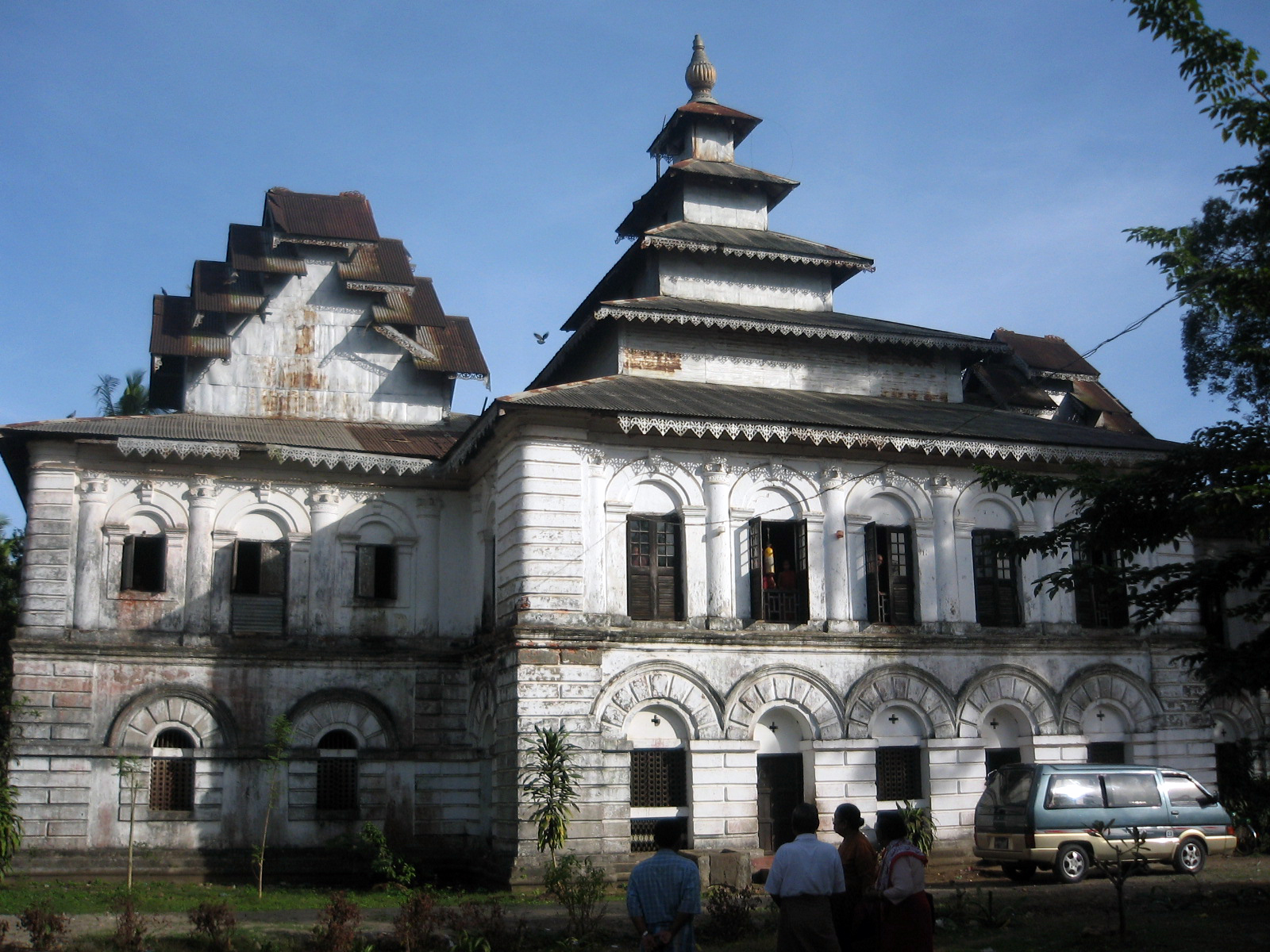 Shwe Zedi Kyaung, U Ottama's monastery in the city of Sittwe, Rakhine State, in Burma/Myanmar. (December 2007)